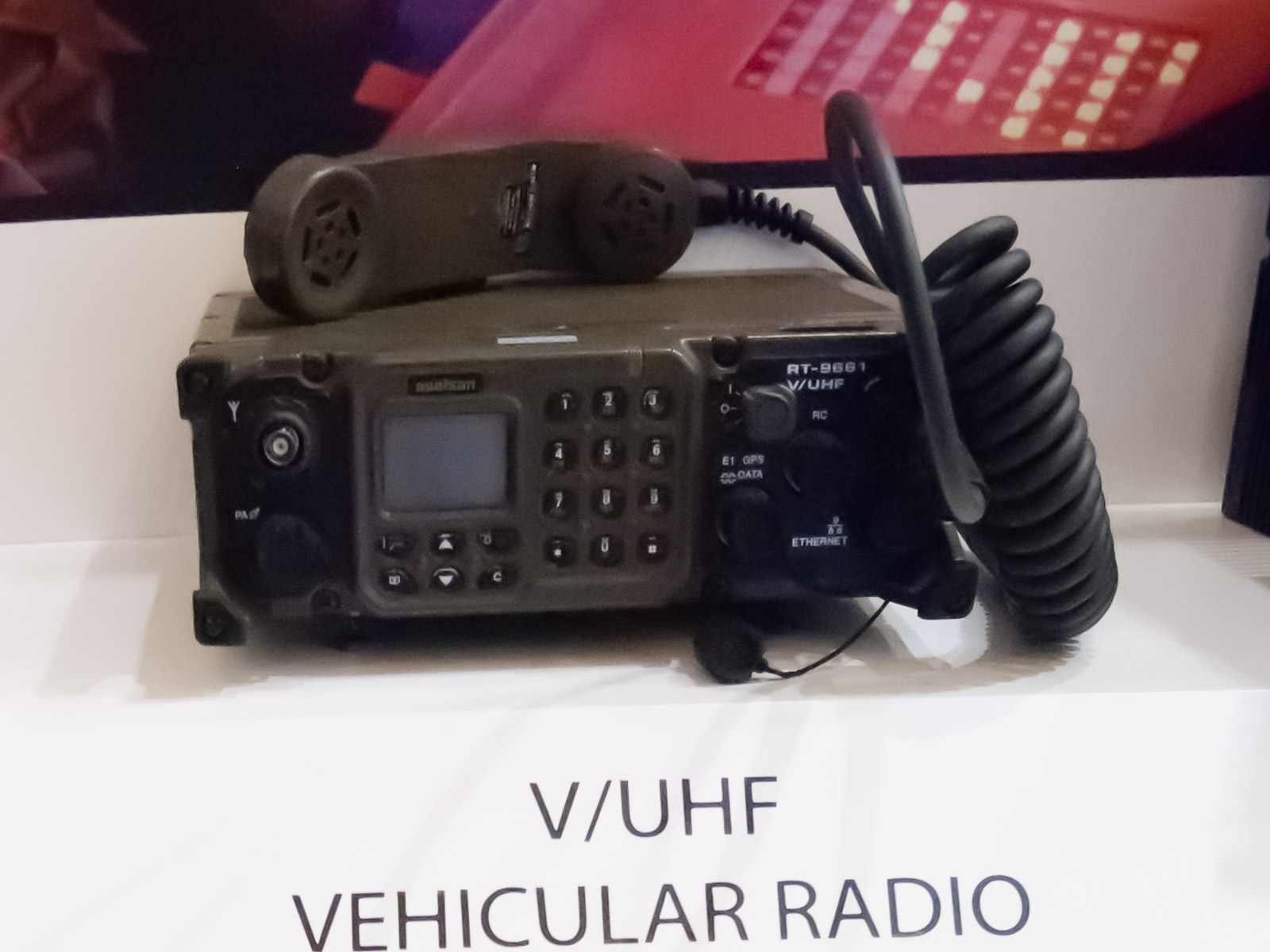 Aselsan (Turkey) military communication devices, 'Zbroya ta Bezpeka' military fair, Kyiv, Ukraine, 2018